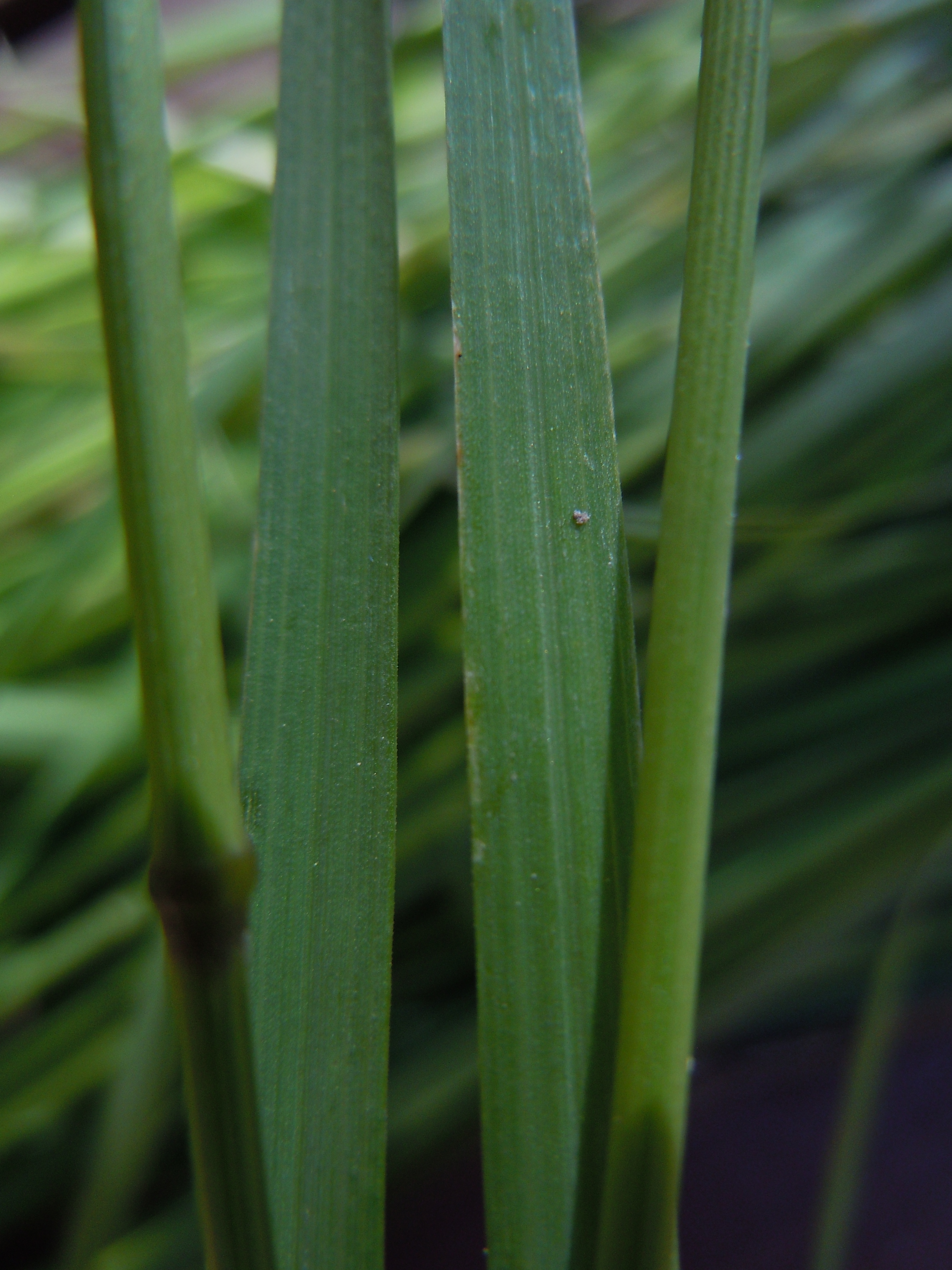 Poa palustris has broad leaves that are concentrated on the stem rather than basally, and the double-midrib characteristic of Poa can be somewhat obscured by the broad blade.